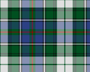 The dress tartan of the MacInnes Clan. Created in a tartan generator.